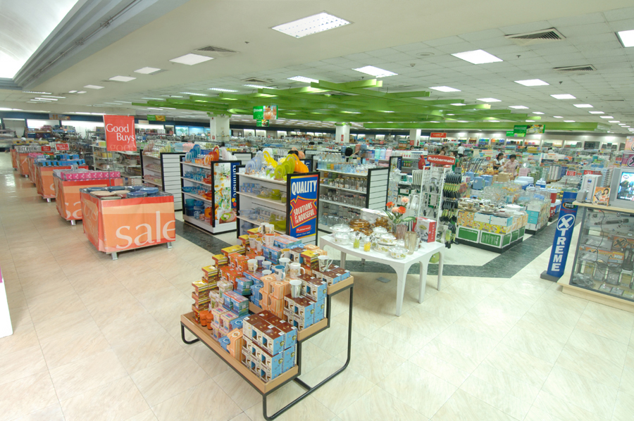 Ever Department Store